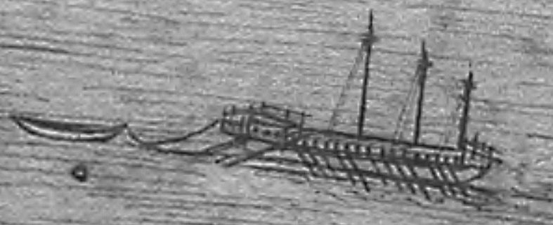 A cropped image showing a native galley-like vessel towing a smaller boat. The ship has 3 masts and double quarter rudder, also propelled with 12 row of oars. Original uncropped image is from an anonymous manuscript, Biblioteca nacional do Brazil, Rio de Janeiro (Arc.009,15,006, Cartografia). It depicts 1568 Acehnese siege of Portuguese Malacca.